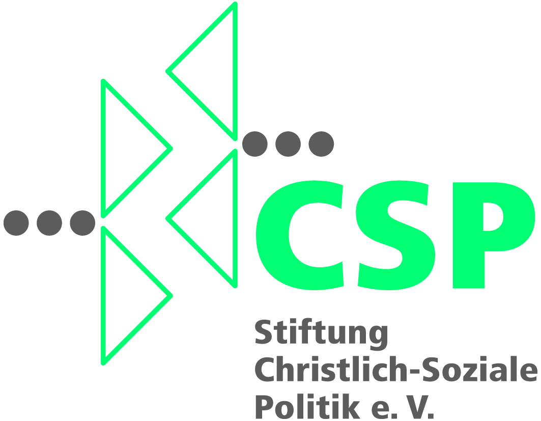 Logo of Stiftung Christlich-Soziale Politik e.V.